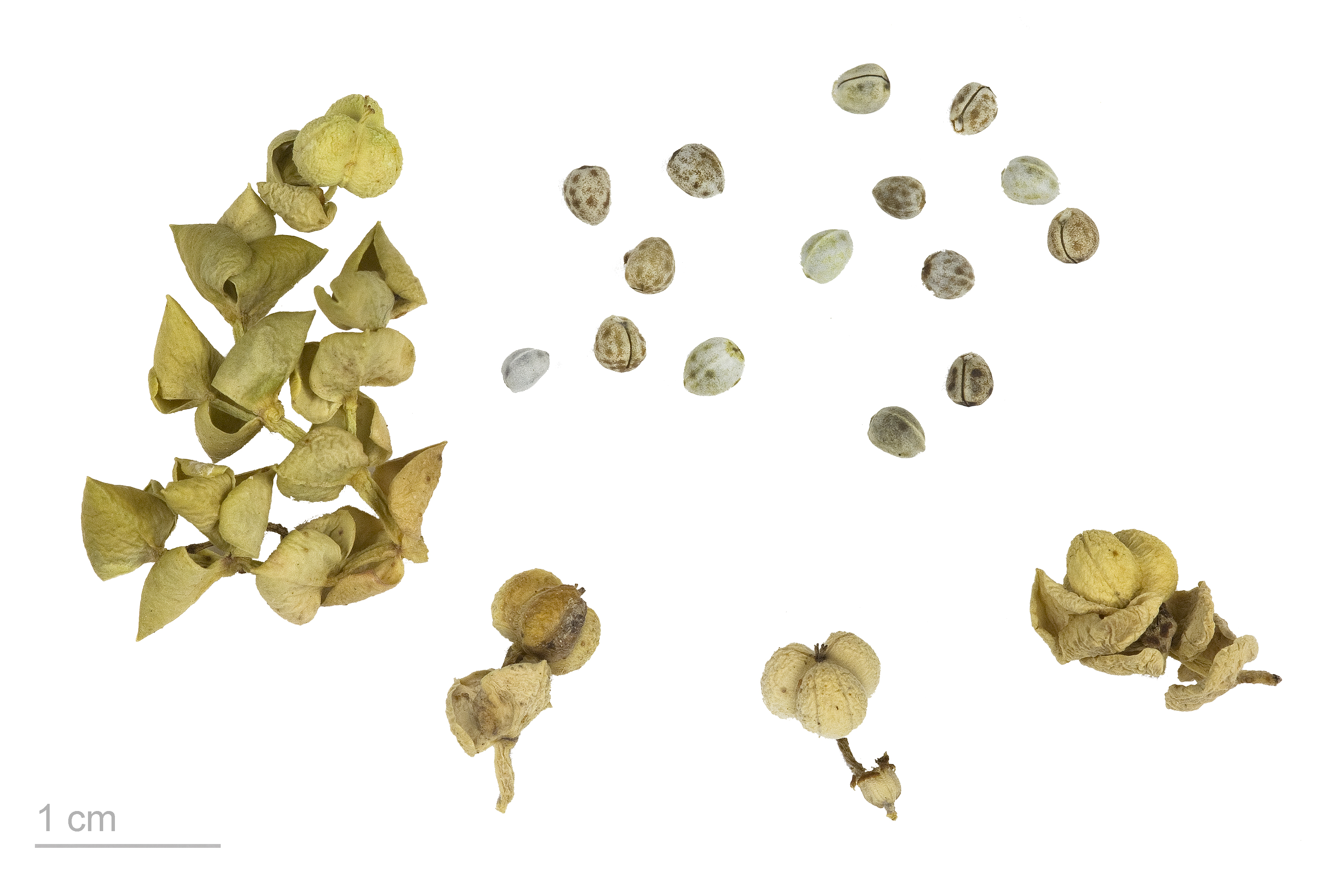 sea spurge , fruits and seeds